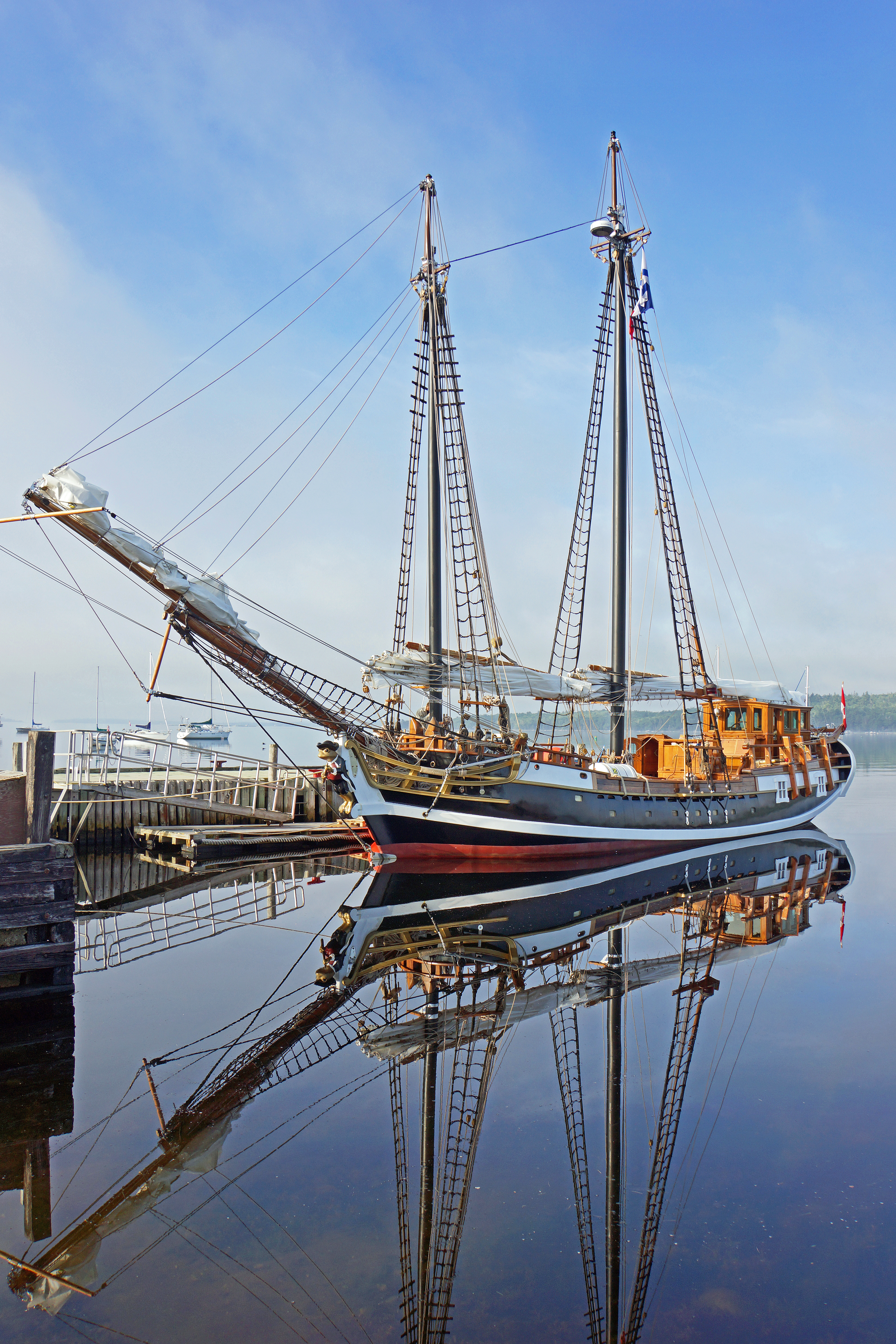 I went to Shelburne, Nova Scotia for a journey to McNutts Island, this is the start of that adventure. I was early and was lucky to get some shots of this beautiful tall ship. Tall Ship Larinda was built as a replica of the 1760 Schooner “Sultana”, Larinda has sailed the globe in many Tall Ship Parades of Sail and has won numerous awards from festivals, events and competitions around the world. Designed and built over a thirty year period as a modified replica of a 1767 Boston Schooner. Larinda is a unique vessel with modern safety features. yet she retains traditional wood appointments and museum quality. Much of her construction was done with recycled 100-year-old long leaf hard pine. A restored 1928, 8-tons 4-cylinder, 100Hp, Wolverine Diesel Engine, provides auxiliary power of this beautiful ship. Her 300 lb. bronze firing cannons add period excitement, featured in publications worldwide. Rig Schooner: Battened Lug Sails Home Port: Boutlier Point at Larinda's Landing, Nova Scotia Sparred Length 86' Beam: 16'6 LOD: 56' Rig Height: 62' LOA: 64' Freeboard: 5' LWL: 52' Sail Area: 2800 sq.ft. Draft: 8' Tons: 46 grt